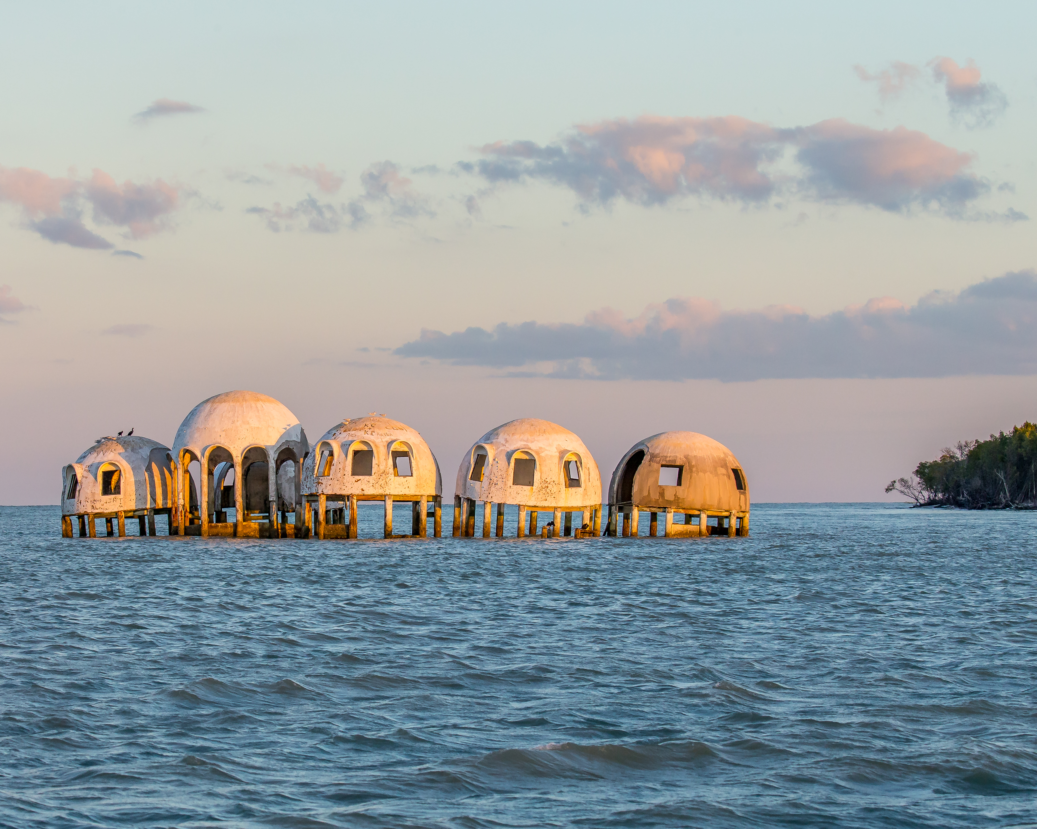 In the 1980s the Cape Romano Dome House was an ultra-modern dwelling built on a beach on an island. The forces of nature combined to leave the house standing in the sea, slowly falling apart. This strange sight can be seen near Marco Island, Florida.